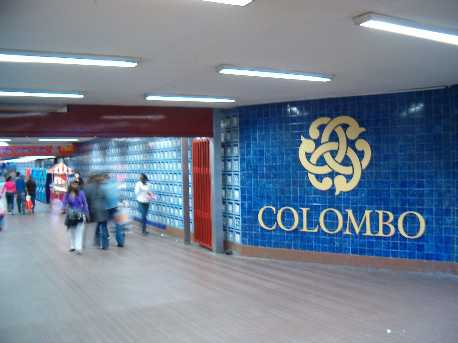 Metro station Colégio Militar/Luz (Lisboa), with the entrance to the Colombo Mall at the right.